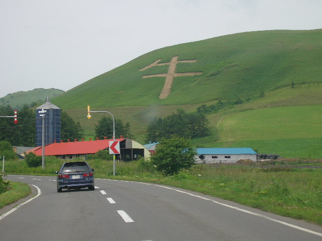 The environs YOUROUUSHI SPA, Nakashibetsu City Hokkaido JAPAN